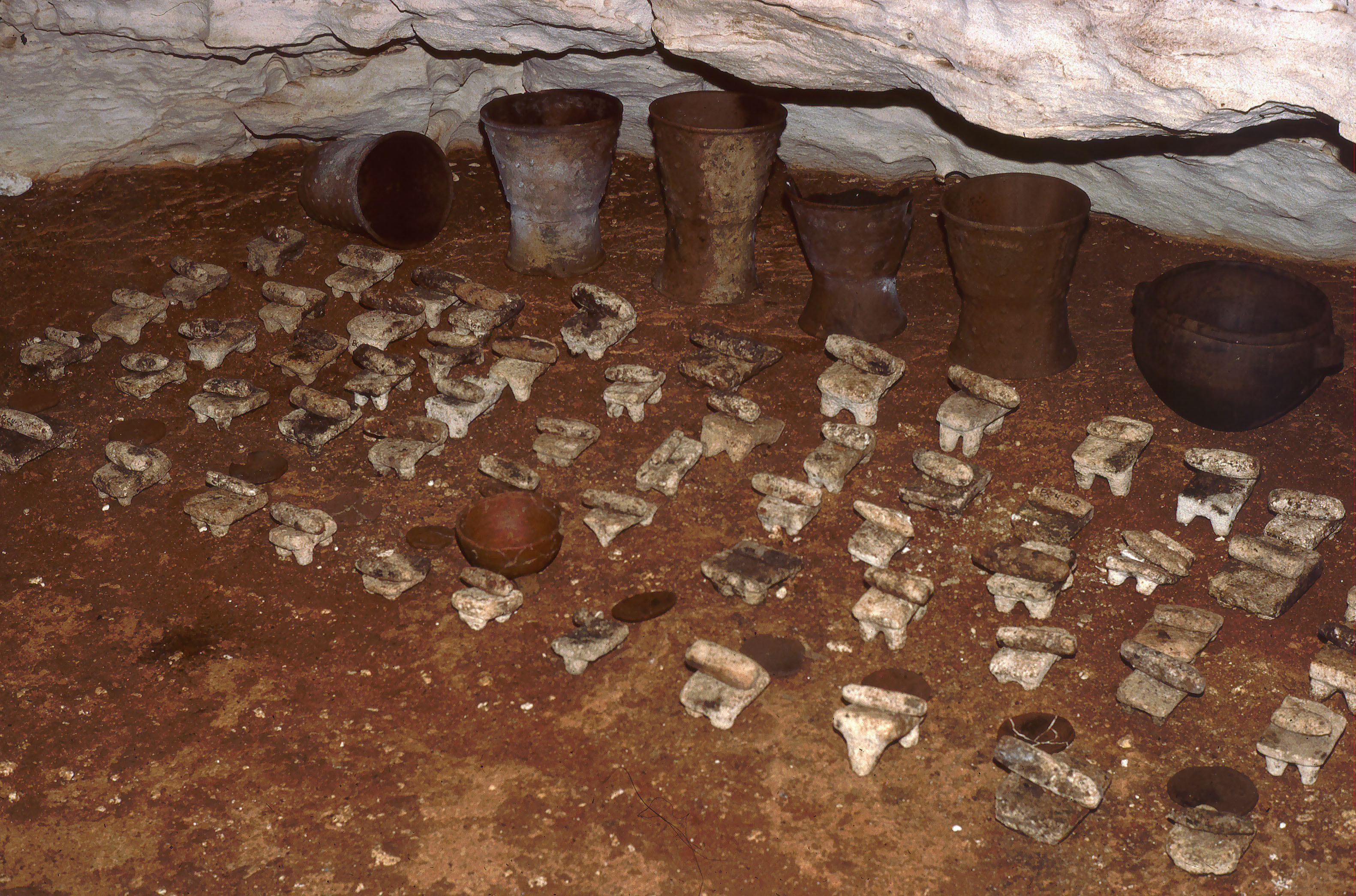 Balancanché cave, Yucatan, Mexico.